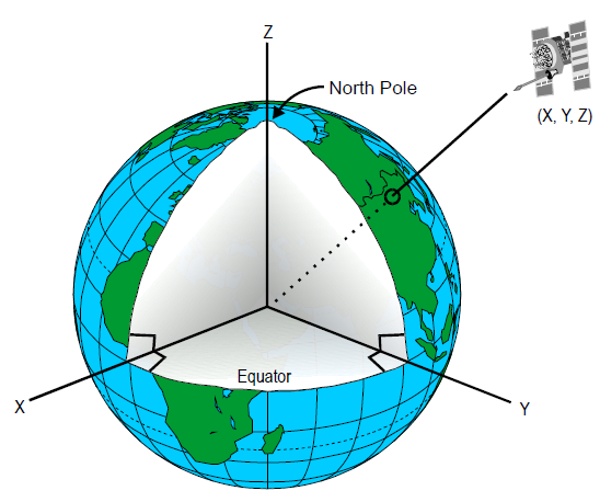 To show a location about the earth using the ECI system; the Cartesian Coordinates are used. The x-y plane coincides with the Earth’s equatorial plane. The x axis is permanently fixed in a direction relative to the celestial sphere (which does not rotate like the Earth does). The z axis lies at a 90 angle to the equatorial plane and extends through the North Pole. The Earth rotates, the ECI Coordinate system does not. Due to forces exerted from the sun and moon, the Earth’s equatorial plane moves with respect to the celestial sphere. Since our measurements are calculated relative to satellite positions, this movement will cause error to position solutions if the ECI system were used.